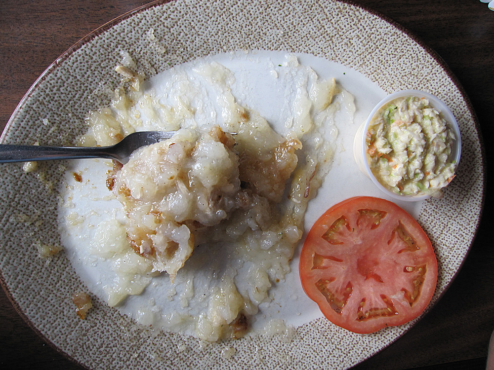 Rappie pie is a traditional Acadian meal. Its name is derived from the French "patates râpées" meaning "grated potatoes". Potatoes are grated and the water removed, a hot broth made from chicken or pork is then added along with meat and onions and then layered over with more of the grated potatoes to make a casserole-like dish.